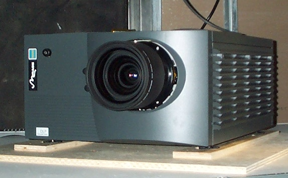 Mirage 5000, a DLP projector made by Christie circa 2001. This particular projector was one of 4 being used in the CAVE virtual reality system at EVL in Chicago; it was capable of 120 Hz field-sequential stereo at 1280x1024 resolution, with 5000 lumens brightness (and cost ~ $80,000 each).